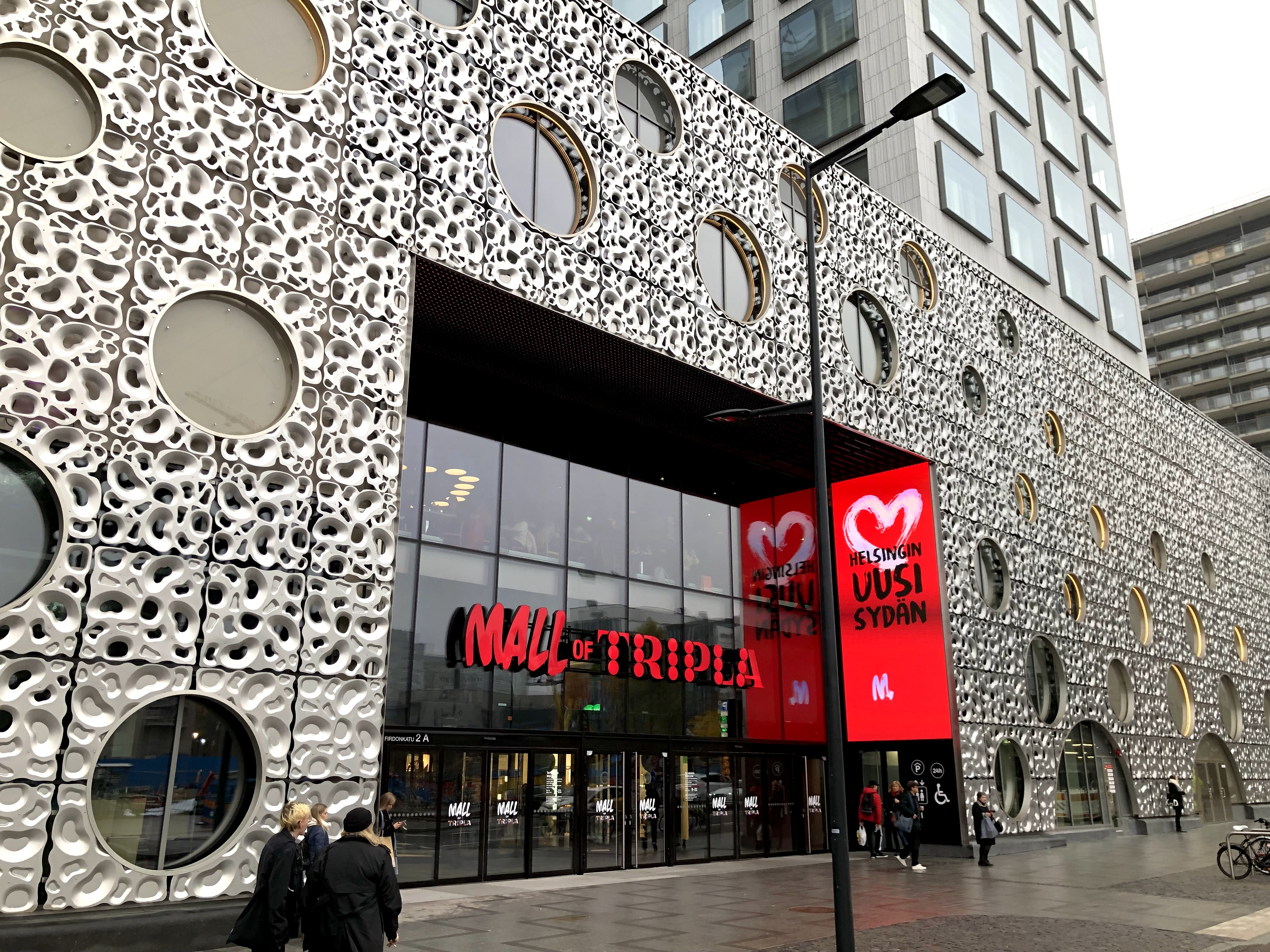 Mall of Tripla's entrance